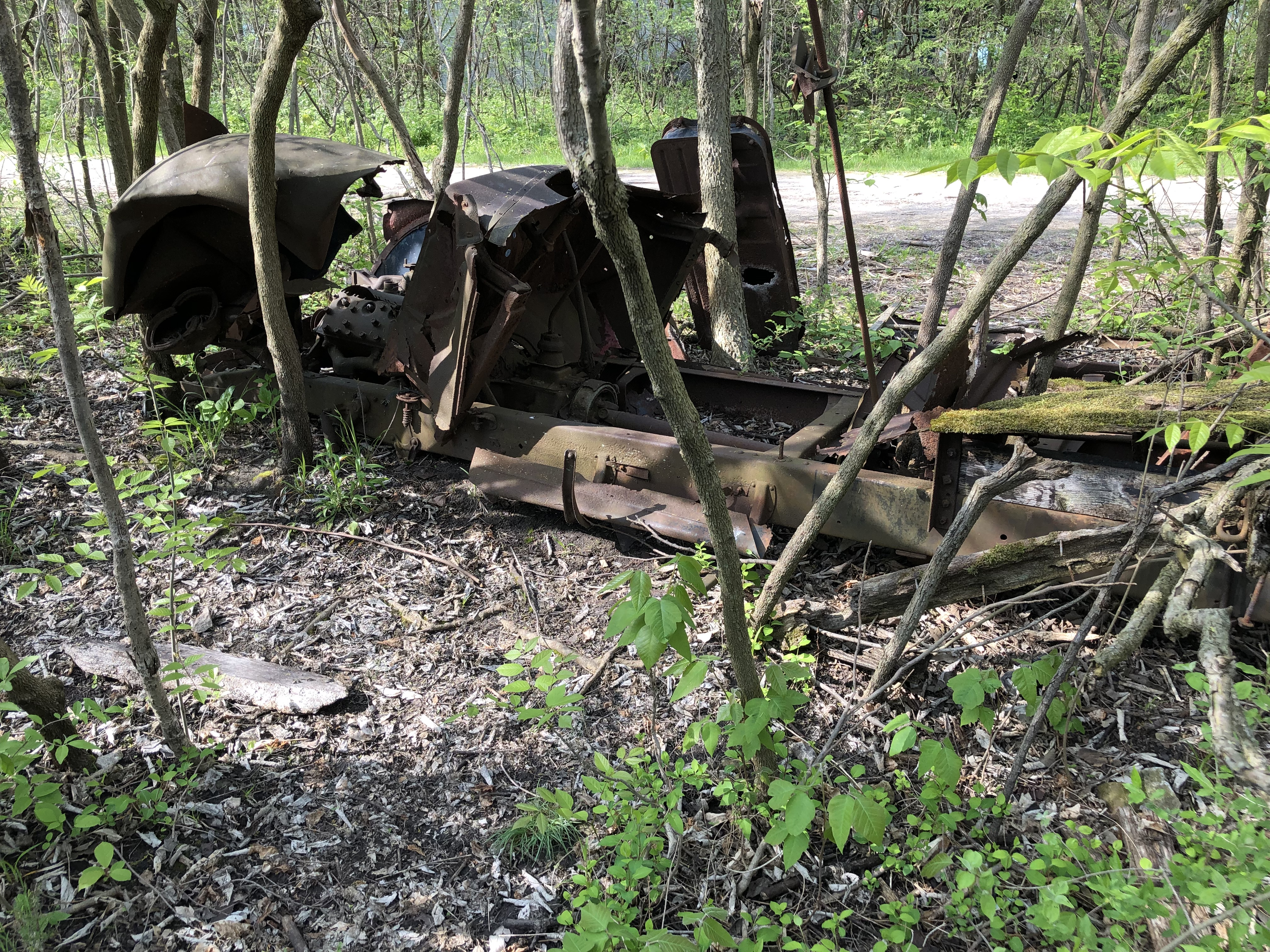 Abandoned Truck zoomed out